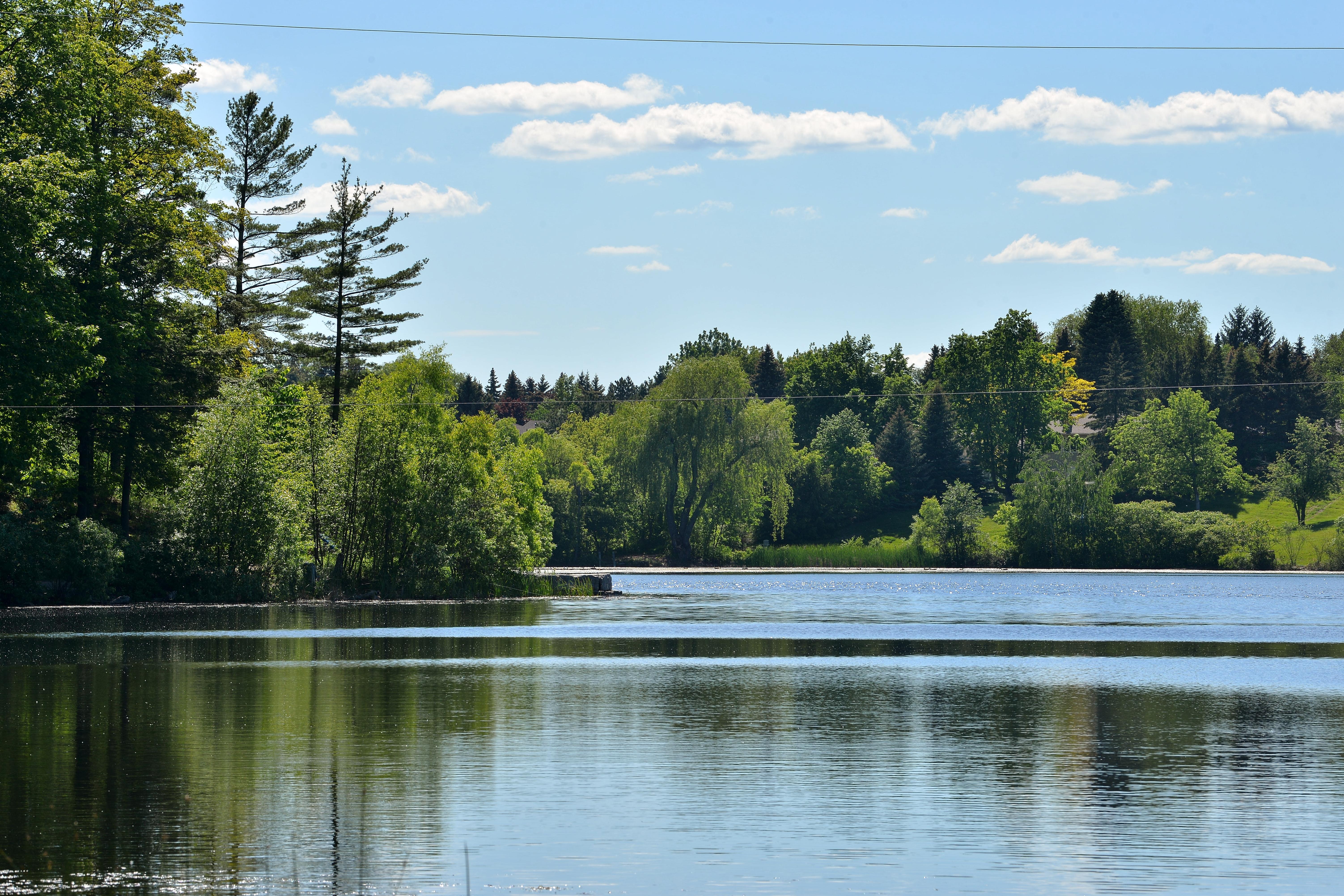 View of the Heart Lake Conservation Area